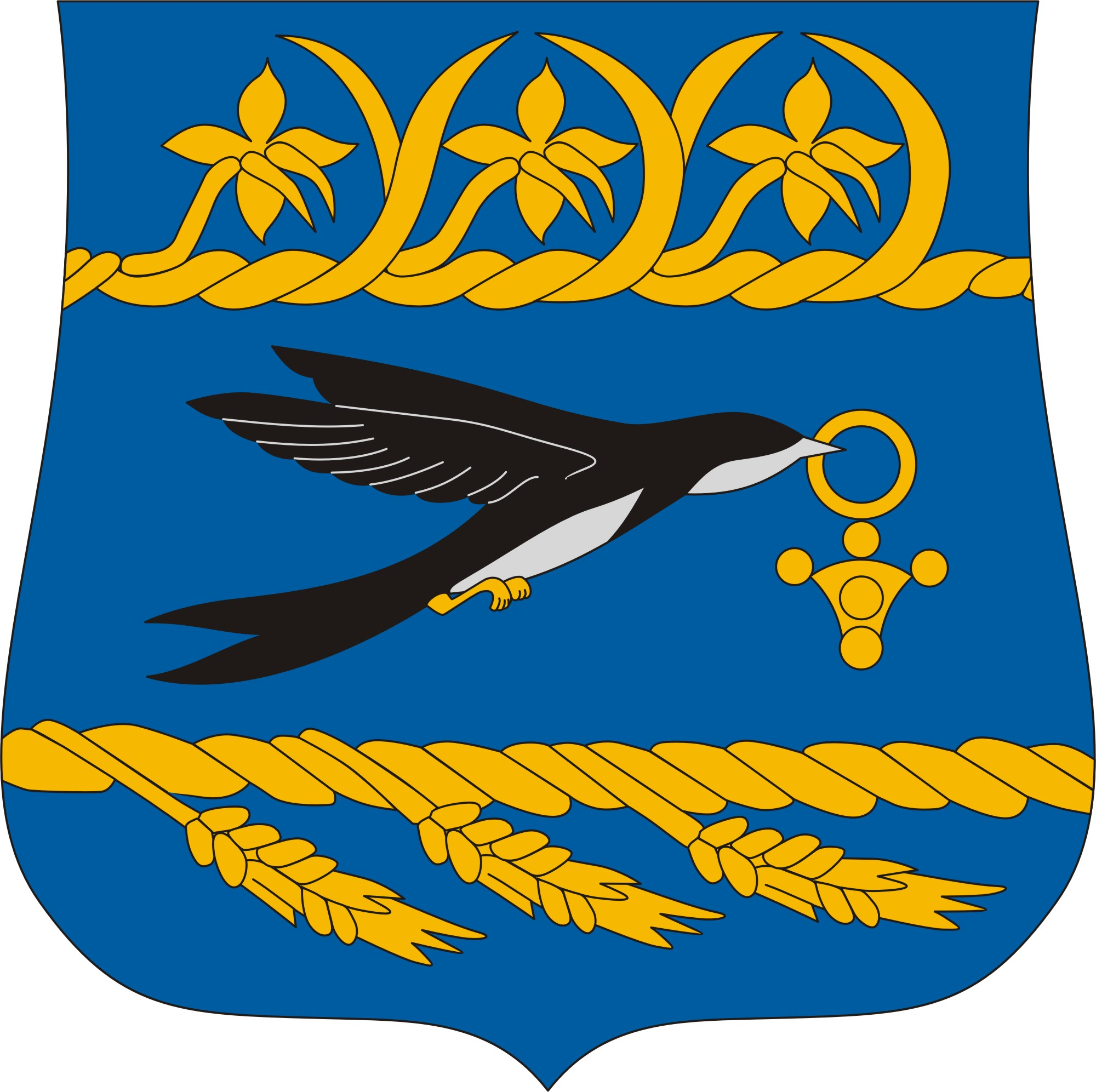 Coat of arms of Kunpeszér, Hungary